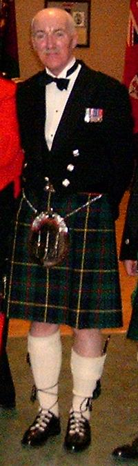 Photo G Larson Category:Images of clothing